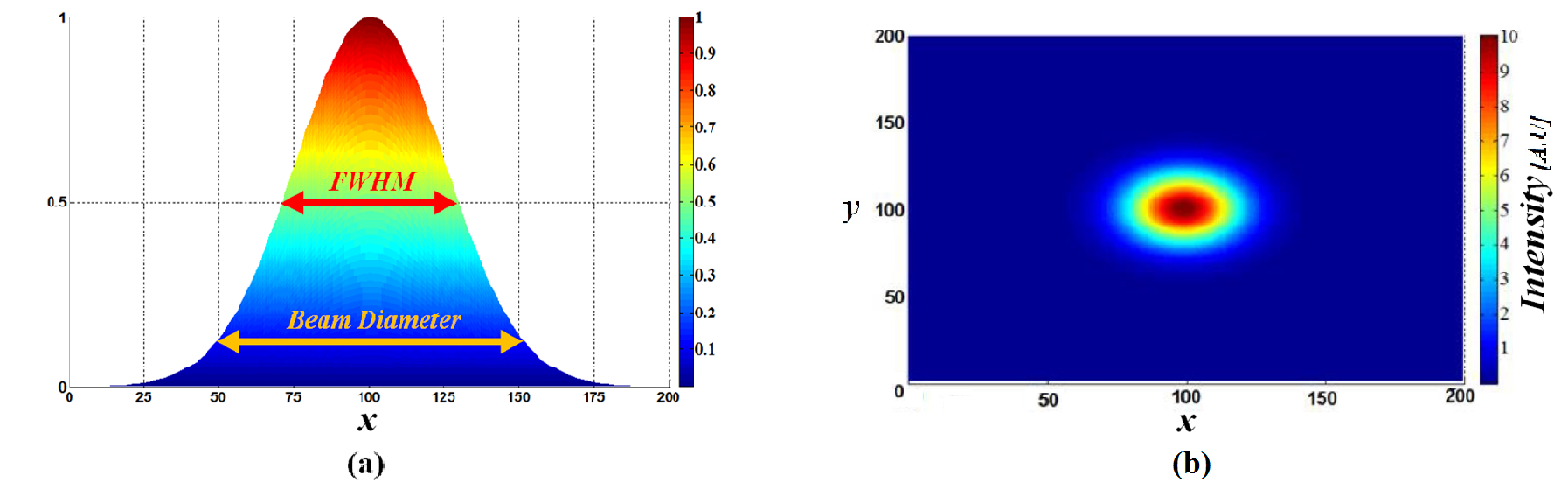 Gaussian profile of the laser beam is modeled mathematically by relating the physical parameters to the mathematical concepts. (a) viewed from the side; (b) viewed from the above.